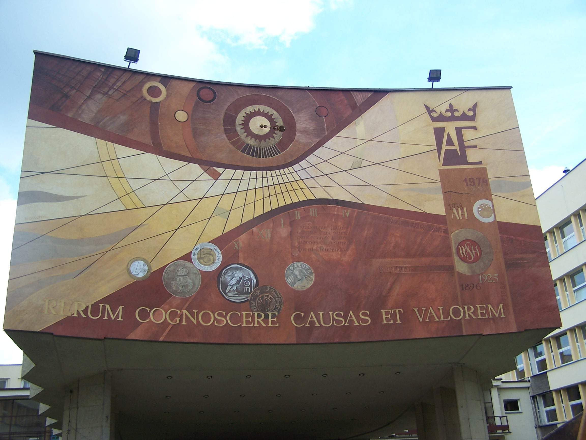 Photo by Piotrus. Academy of Economics in Kraków. Building C (front, recently renowated). Building A is on the left, building B is on the right (small part visible). The Latin slogan reads: Rerum cogonscere causas et valorem – "To know the essence and value of things". Quality image candidate: Declined; reason: Underexposed. Also, for such a subject, I think you should get a straighter angle (right angle if possible). This would create a better view